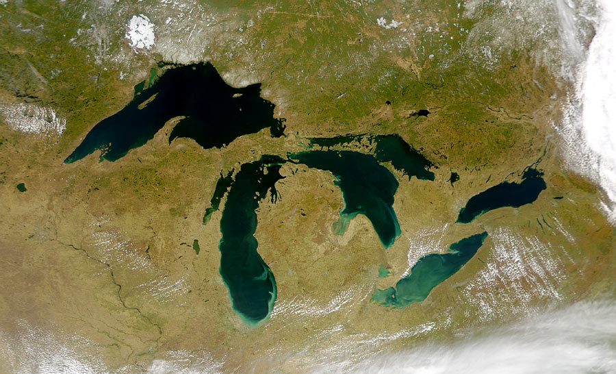 Satellite image of the Great Lakes from space